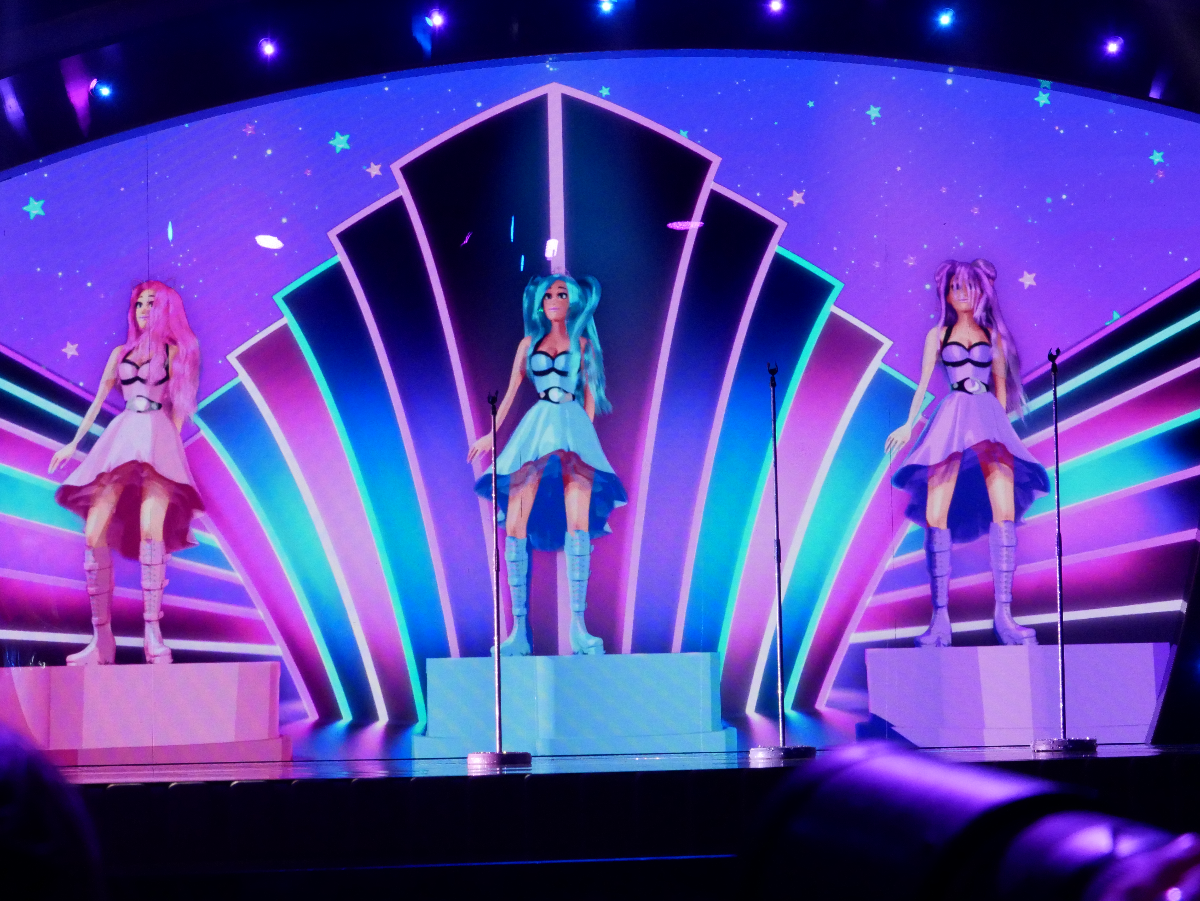 Melodifestivalen 2019, part contest 3, Leksand, Sweden